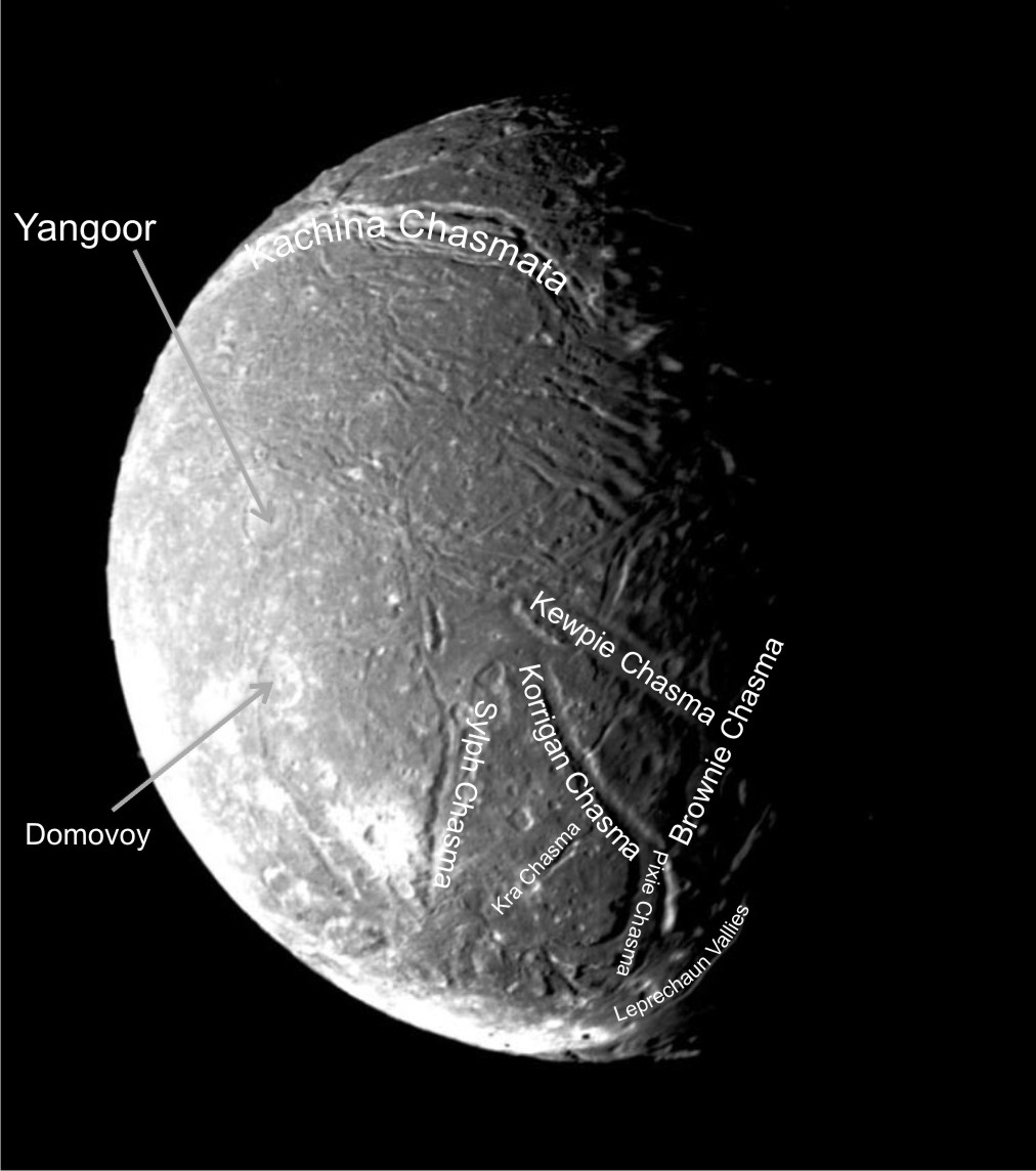 An image of Ariel acquired by Voyager 2 with surface features marked